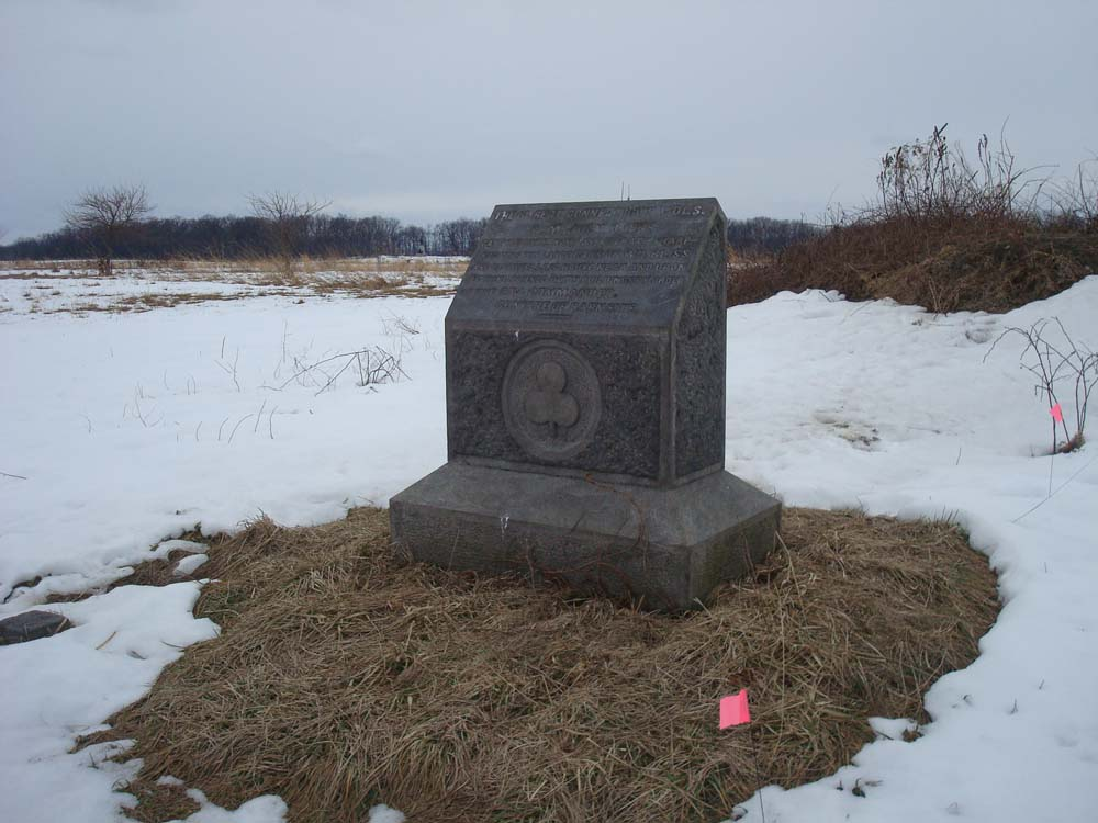 14th Connecticut Infantry Monument, Hancock Avenue, Gettysburg Battlefield.